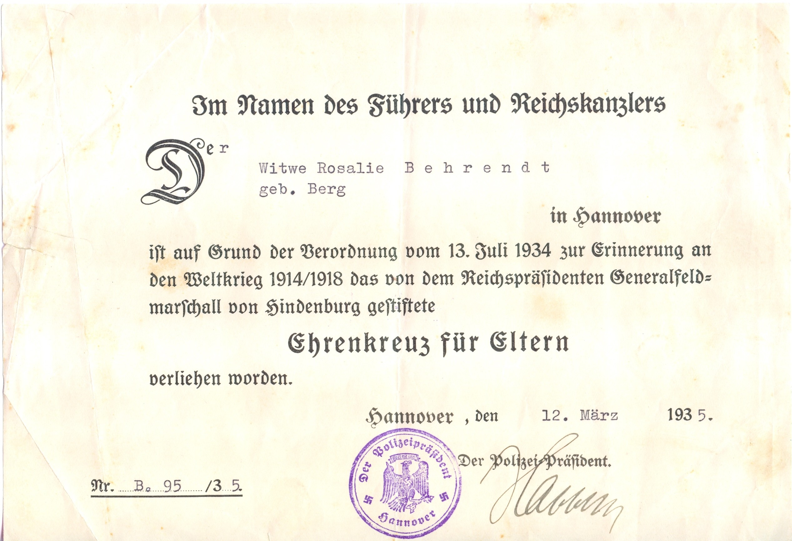 Cross of Honor for parents, WWI